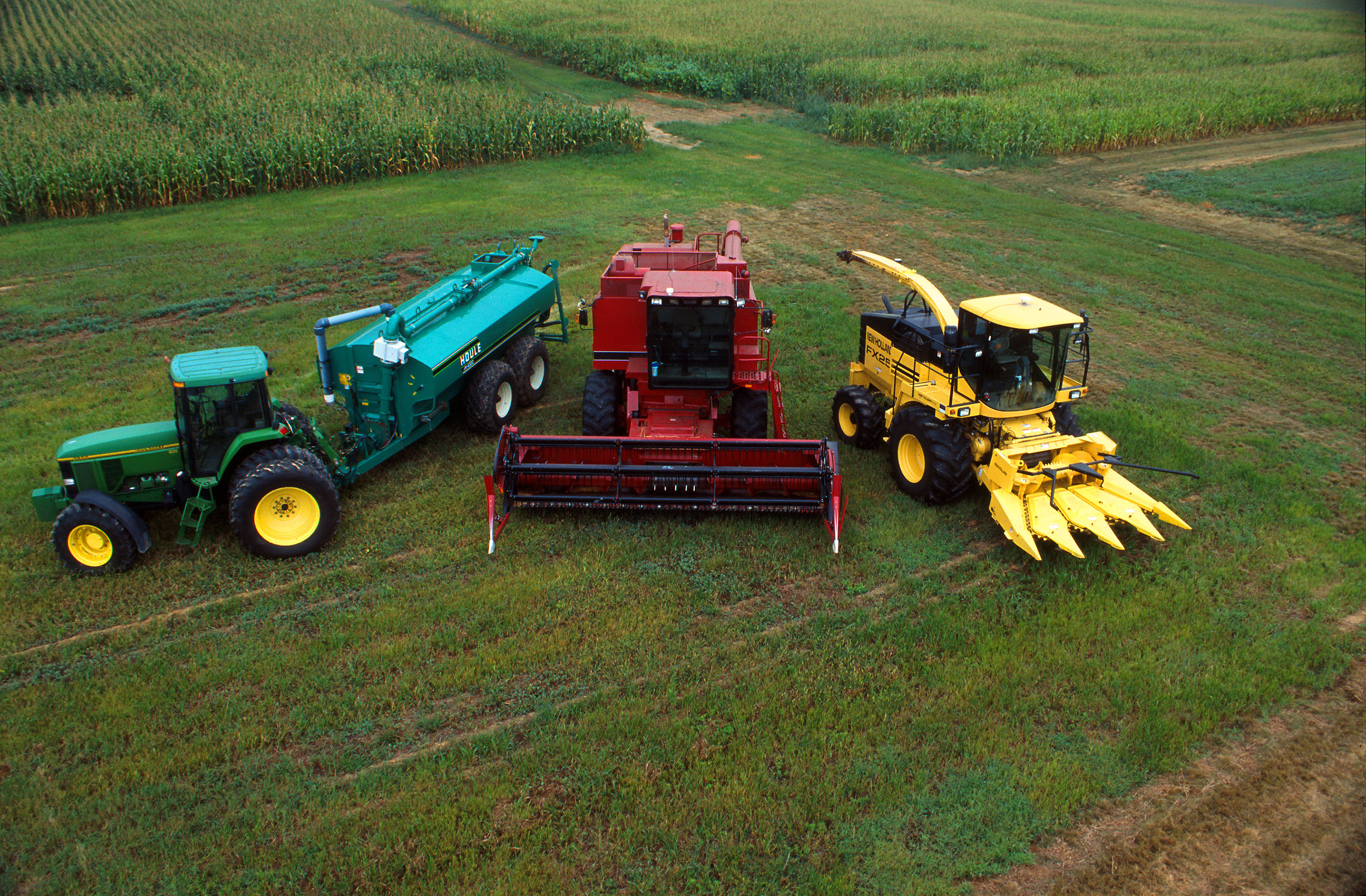 Many farm machines at ARS' Beltsville Agricultural Research Center are running on a mixture of diesel fuel and biodiesel, which is made from soybean oil. – from left to right: John Deere 7800 tractor with Houle slurry trailer, Case IH combine harvester, New Holland FX 25 forage harvester with corn head